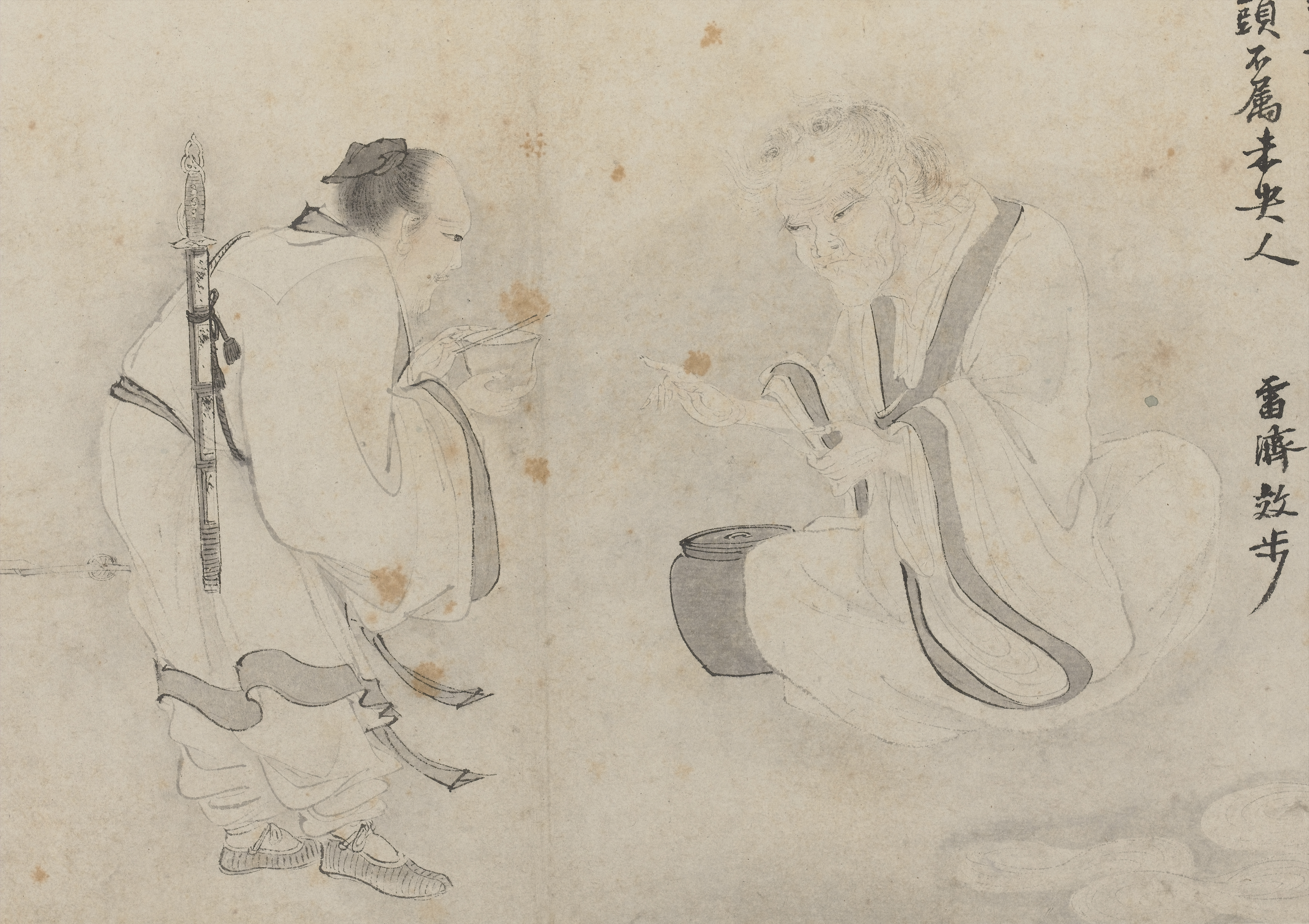 This painting depicts an incident from early in the life of Han Xin. He was born into a poor family and often went hungry. Once, an old washer-woman by a river took pity on him and offered him food. Han Xin told her he would repay her when he had made his fortune, but she rebuffed him saying she had not given him the food in the expectation of any reward. Eventually, he would rise to become a powerful minister of the Han dynasty.